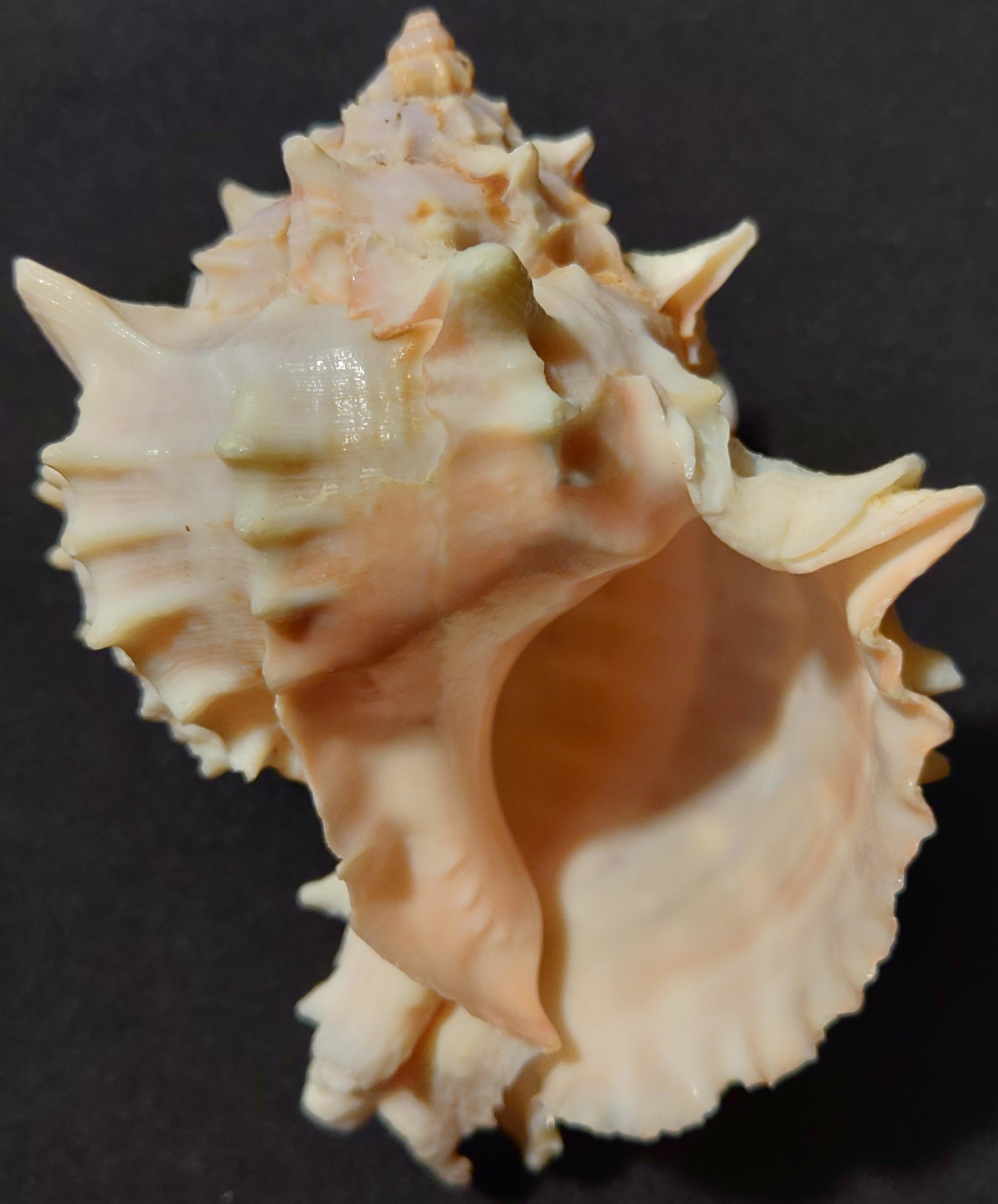 Hexaplex Erythrostomus Front